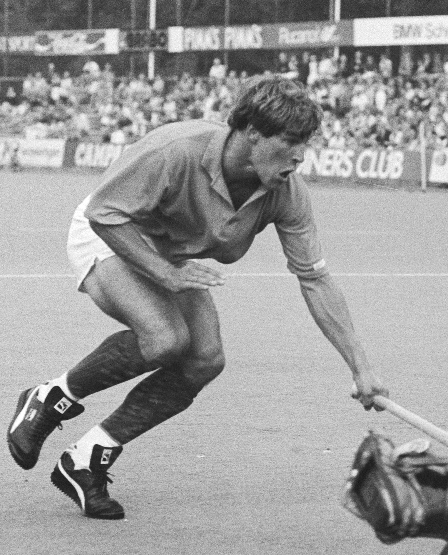 Jan Hidde Kruize scores against Poland